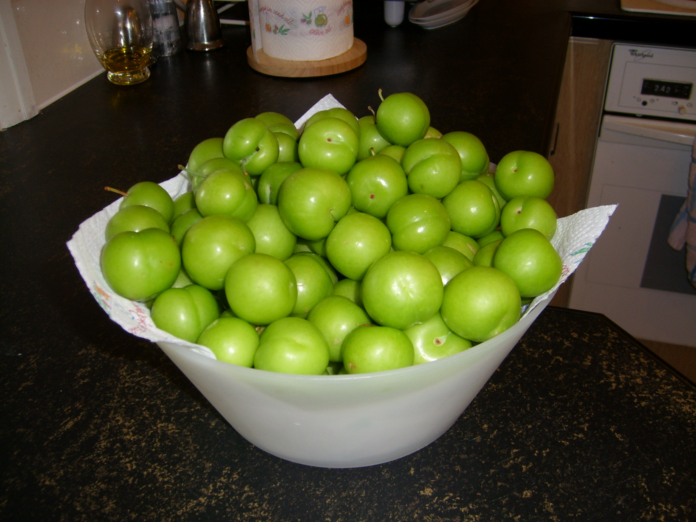 A bowl of wild green plums variously called ganerik, "Can Eric" or Ganarek, from my garden. It is to depict this special fruit grown in Bdadoun, Lebanon.